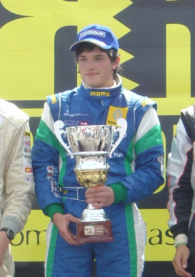 Simon Trummer: the photo was taken during 2008's Jim Clark Revival at Hockenheim. He won race 1 of the Swiss Formula Renault 2.0 series that day.